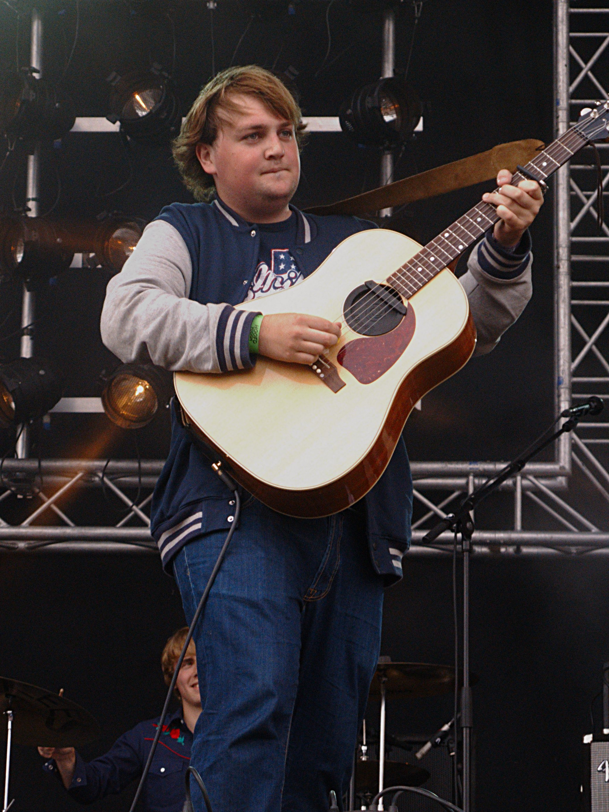 Tim Knol at Zwarte Cross Festival 2011